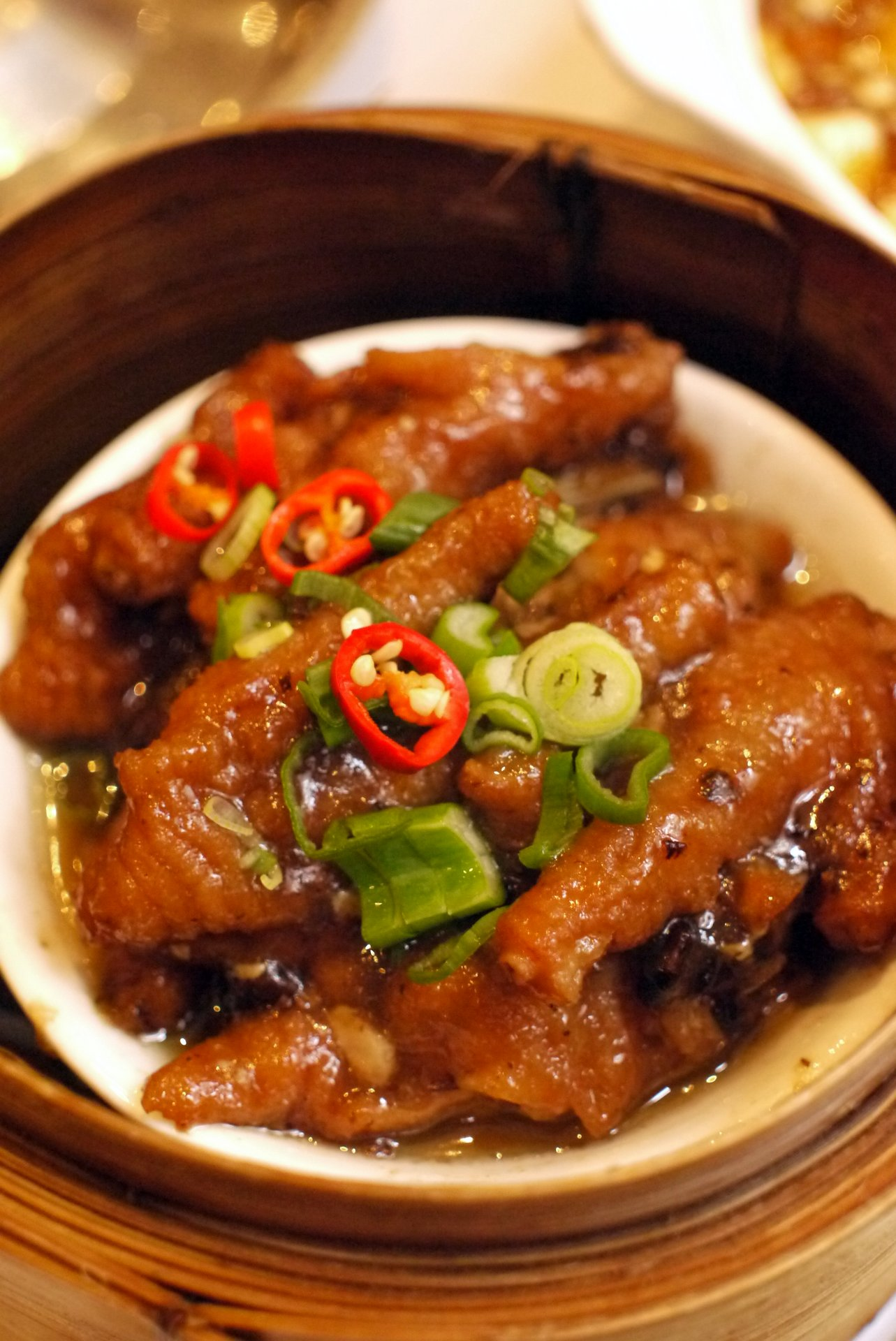 Chicken feet dim sum served at a Chinese restaurant in The Hague.